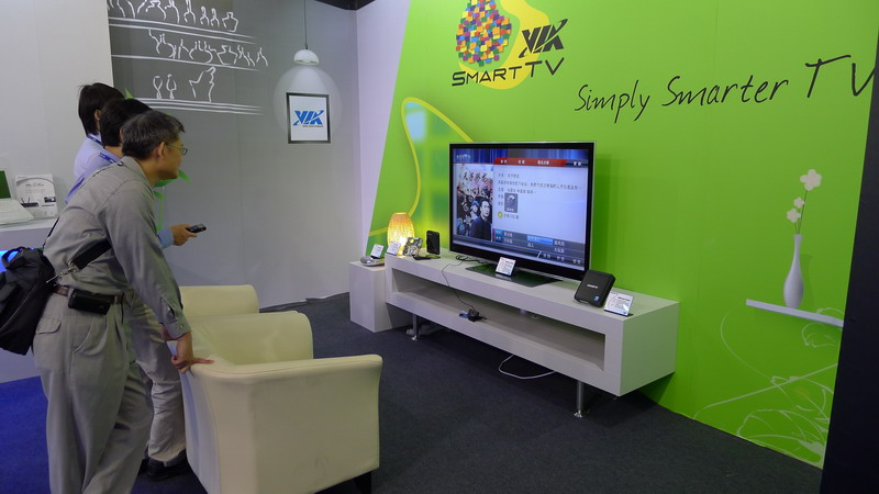 Here is the Smart TV display in the VIA booth. Showcasing the industry leading Smart TV solution.